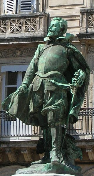 Statue of Jean Guiton